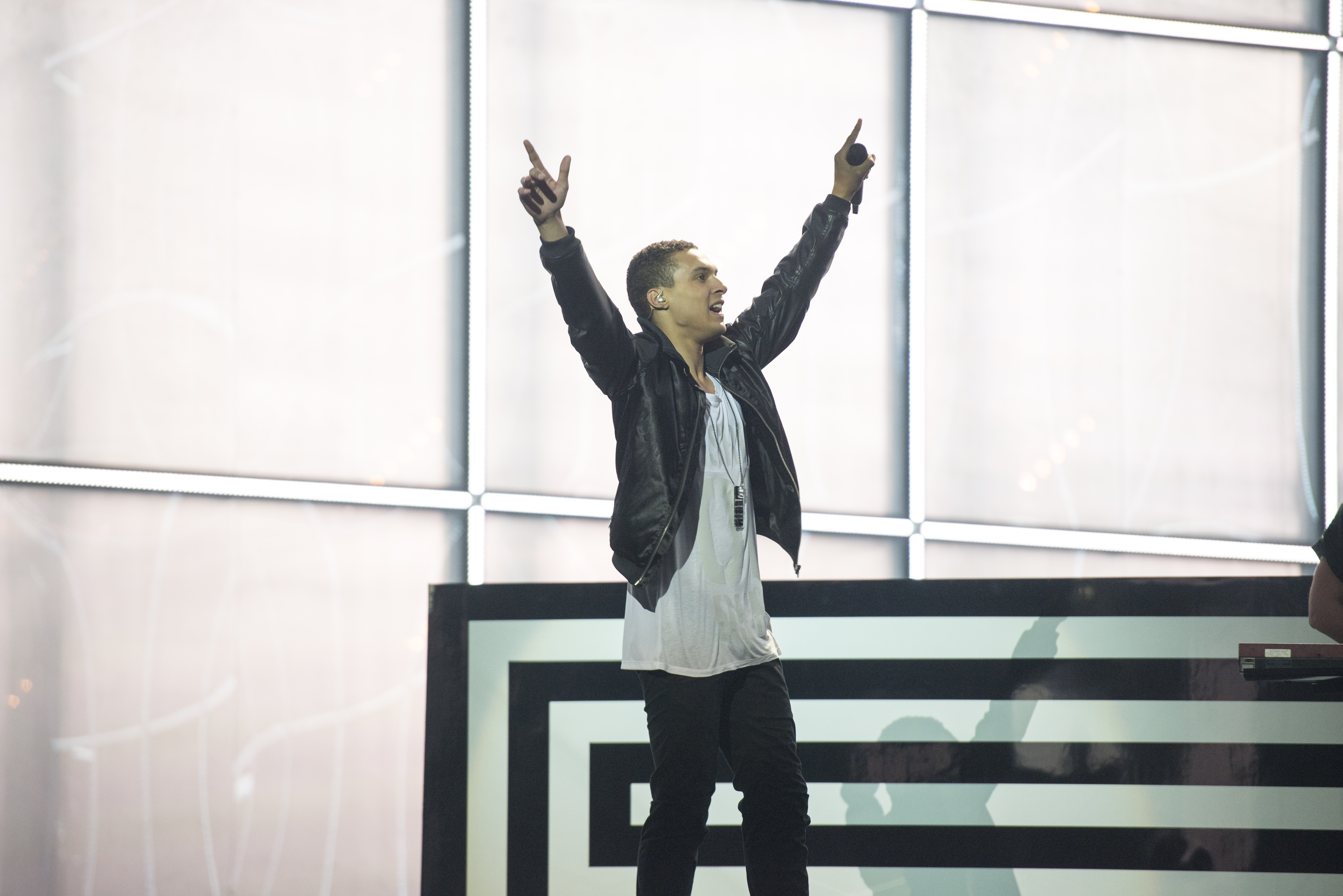 Freaky Fortune and Shane Schuller representing Greece with the song "Rise Up" during the first dress rehearsal of the second semi final of the Eurovision Song Contest 2014 Copenhagen. (Help translate this text)